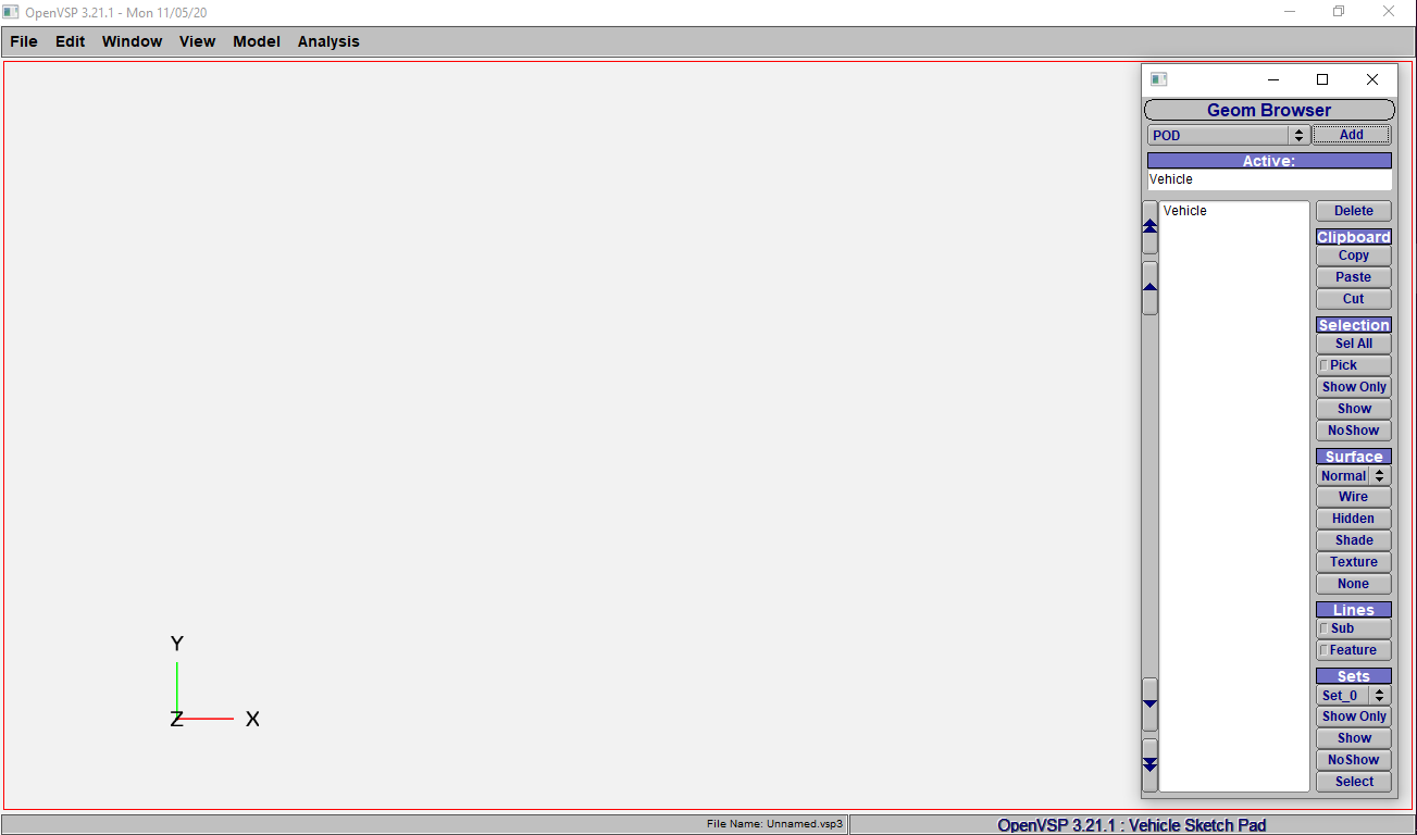 The window that appears upon launch of the VSP program